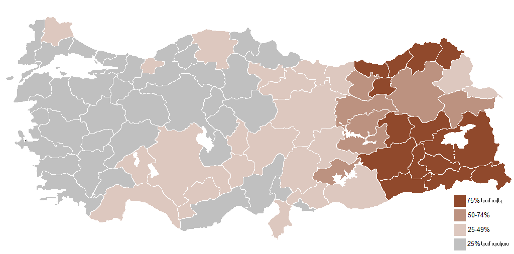 The percentage of renamed place names in Turkey by province based on Sevan Nişanyan's Adını unutan ülke: Türkiye'de adı değiştirilen yerler sözlüğü (2010, Everest Yayınları, Istanbul) p. 52